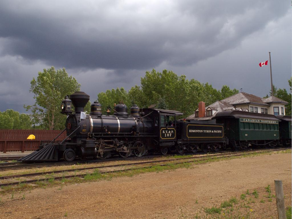 Fort Edmonton Park excursion train E. Y. & P. No 107. This train appeared in the 2007 film, The Assassination of Jesse James by the Coward Robert Ford